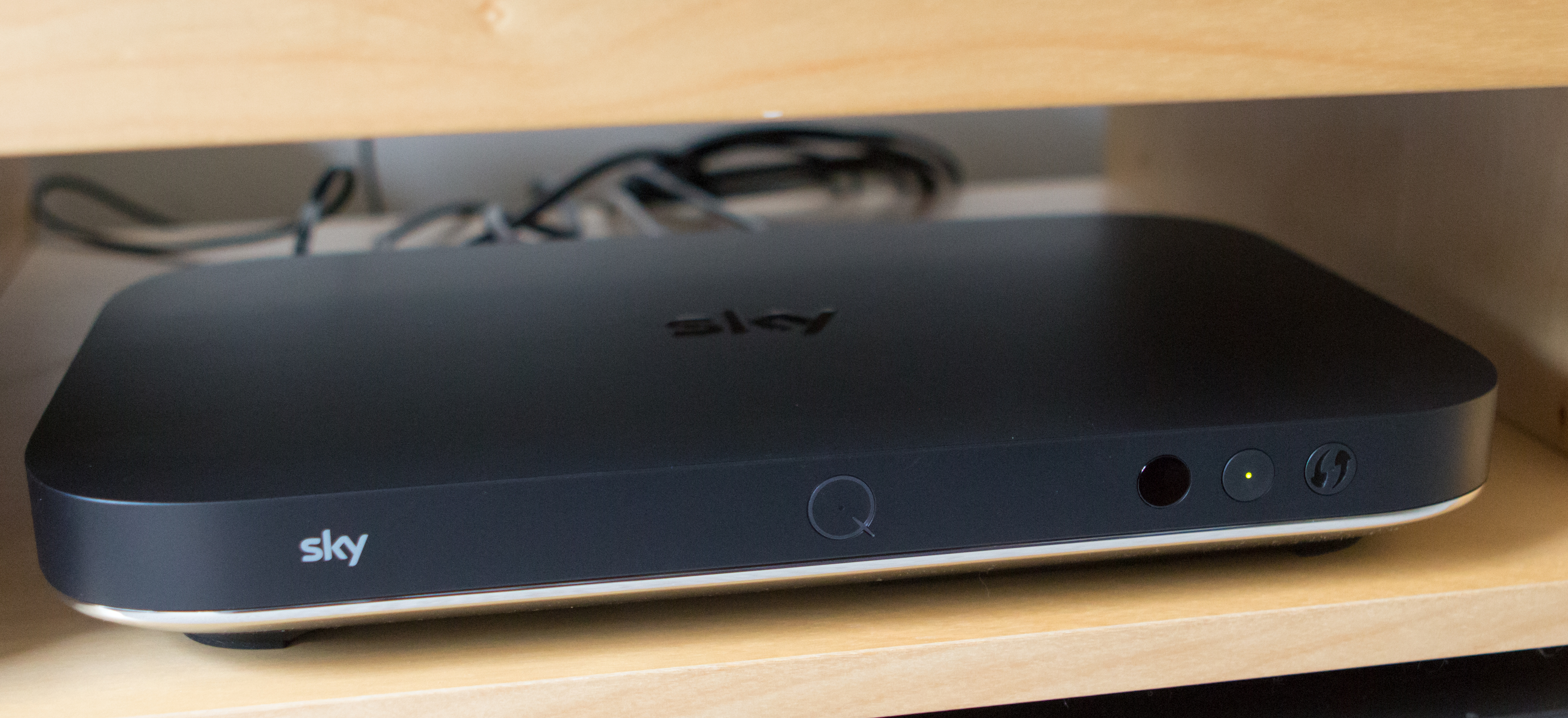 The "heart" of the Sky Q system - this is the main box that feeds the Sky Q Mini boxes and any tablets in the house.